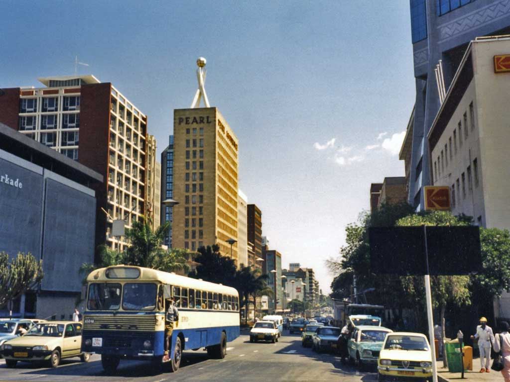 Downtown Harare, Zimbabwe from April, 1995.